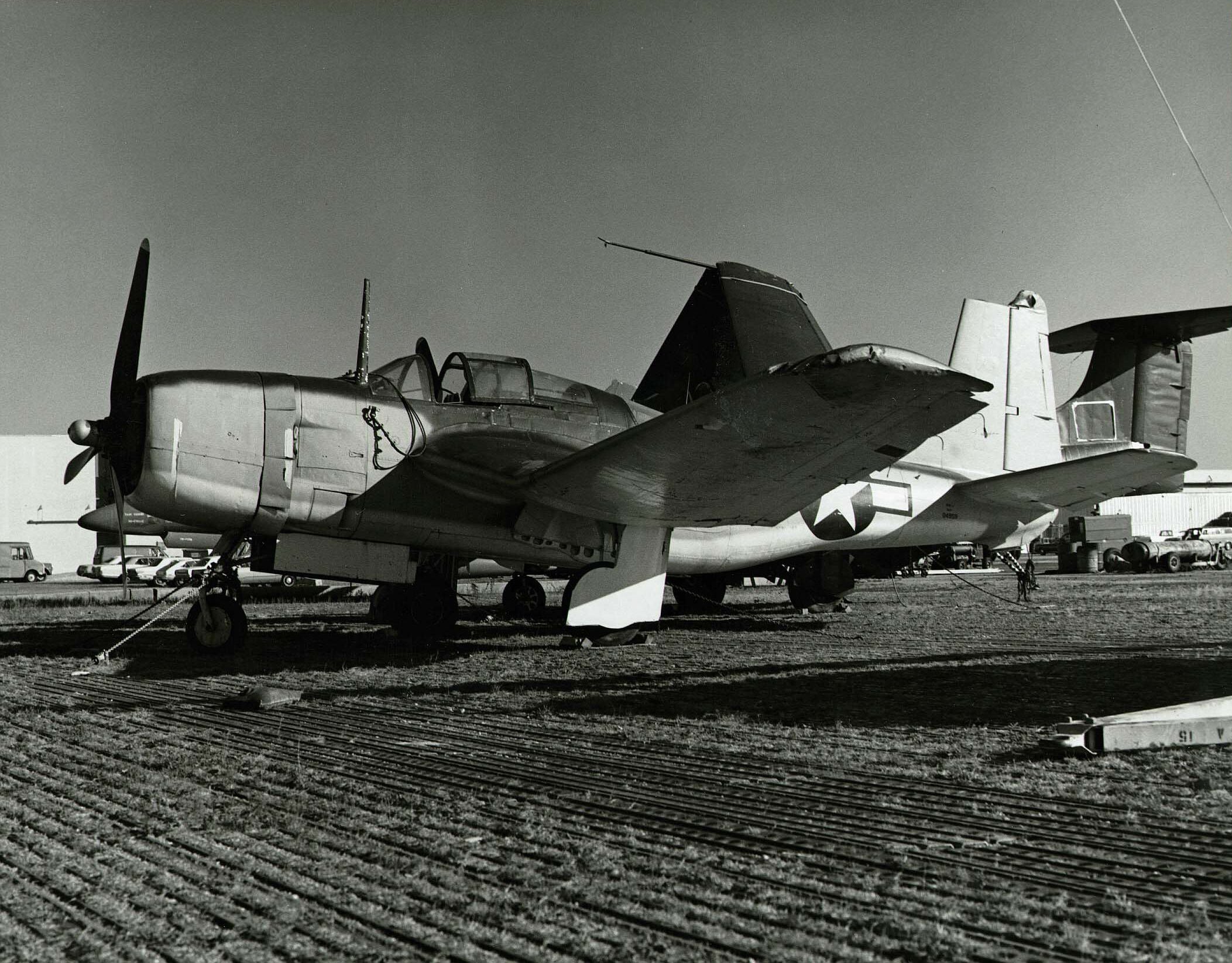 A Douglas BTD-1 Destroyer at the Naval Air Rework Facility, Naval Air Station Norfolk, Virginia (USA). Note that this is not a 1940s picture (see the C-12 and A-4 in the background). This aircraft is the BTD-1, BuNo 4959, which is preserved at the "Wings of Eagles Discovery Center", Elmira-Corning Regional Airport, Elmira, New York (USA). This aircraft had long been in the "Florence Air & Missile Museum" collection until the museum's closing in 1997.